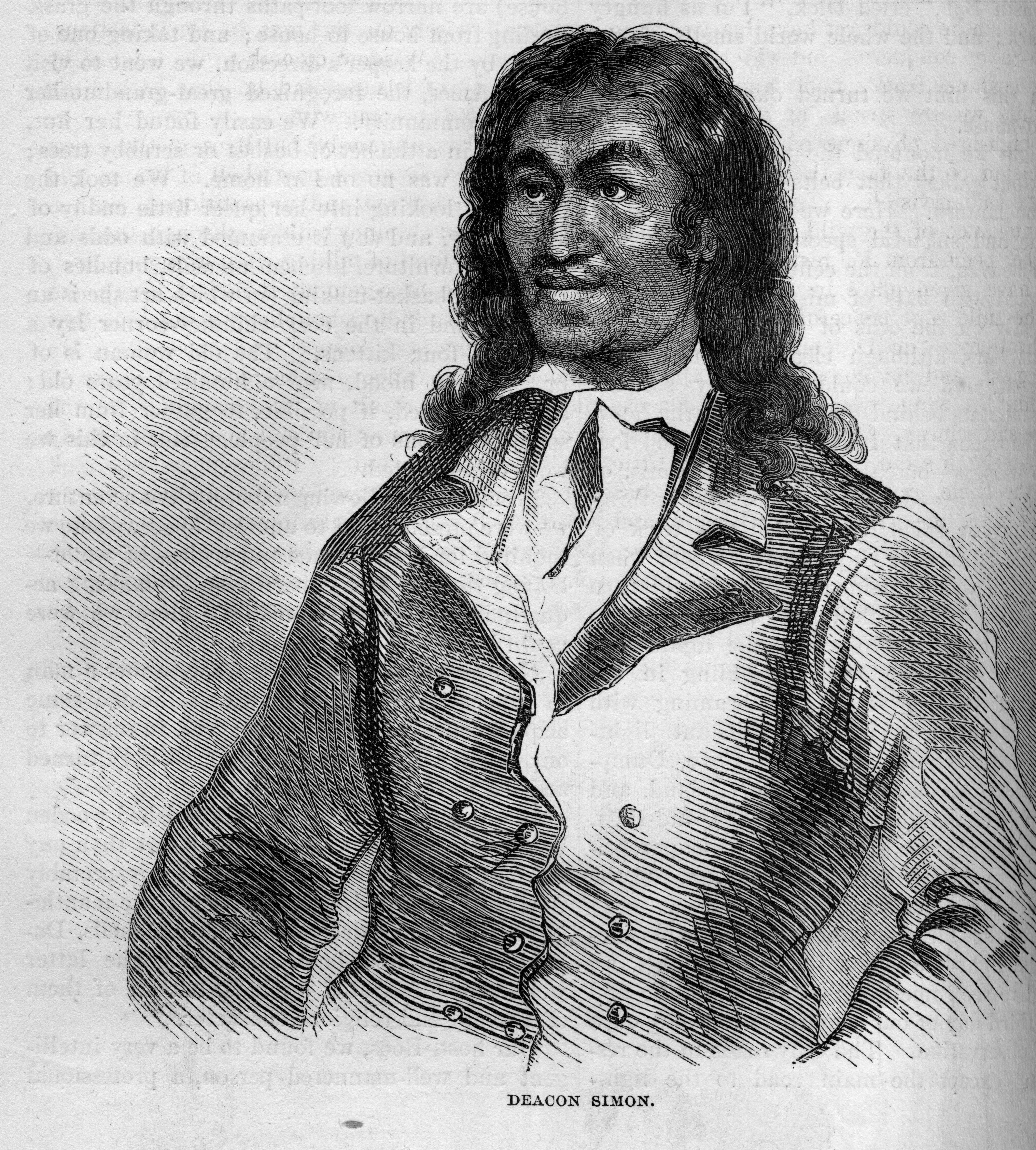 Illustration of the "Deacon Simon," by Porte Crayon from "Summer In New England" by D.H. Strother). Harper's New Monthly Magazine. Volume 21, Issue 121. June 1860. 452.